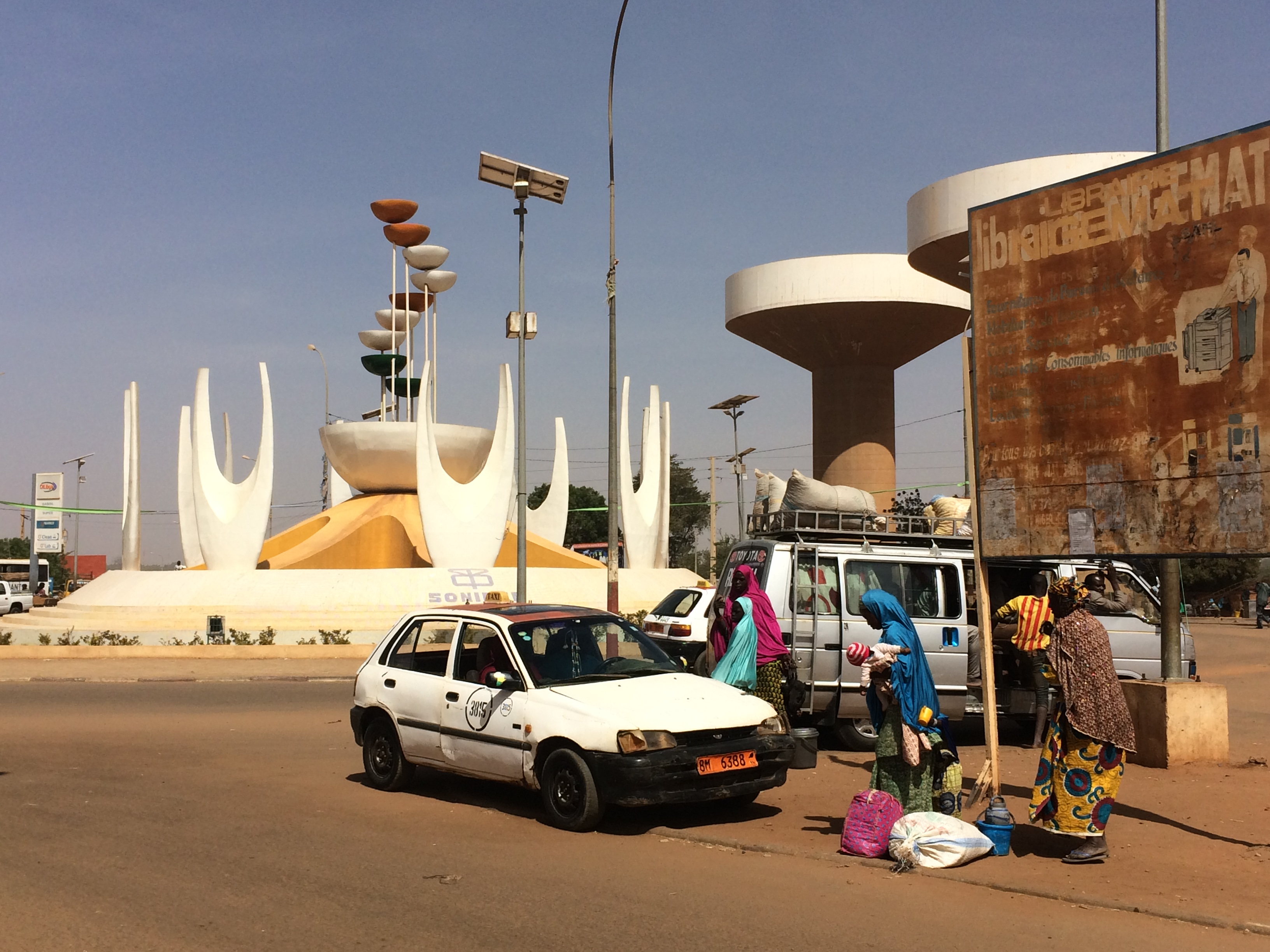 Women boarding a taxi at the Liptako-Gourma roundabout in Niamey, Niger, West Africa. Note the two giant water towers.